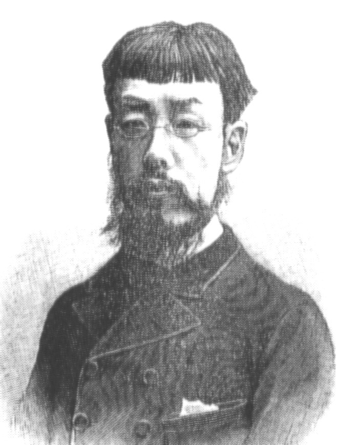 Photo of Gôda Kiyoshi